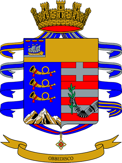 Coat of Arms of the 52° Infantry Battalion; Italian Army.